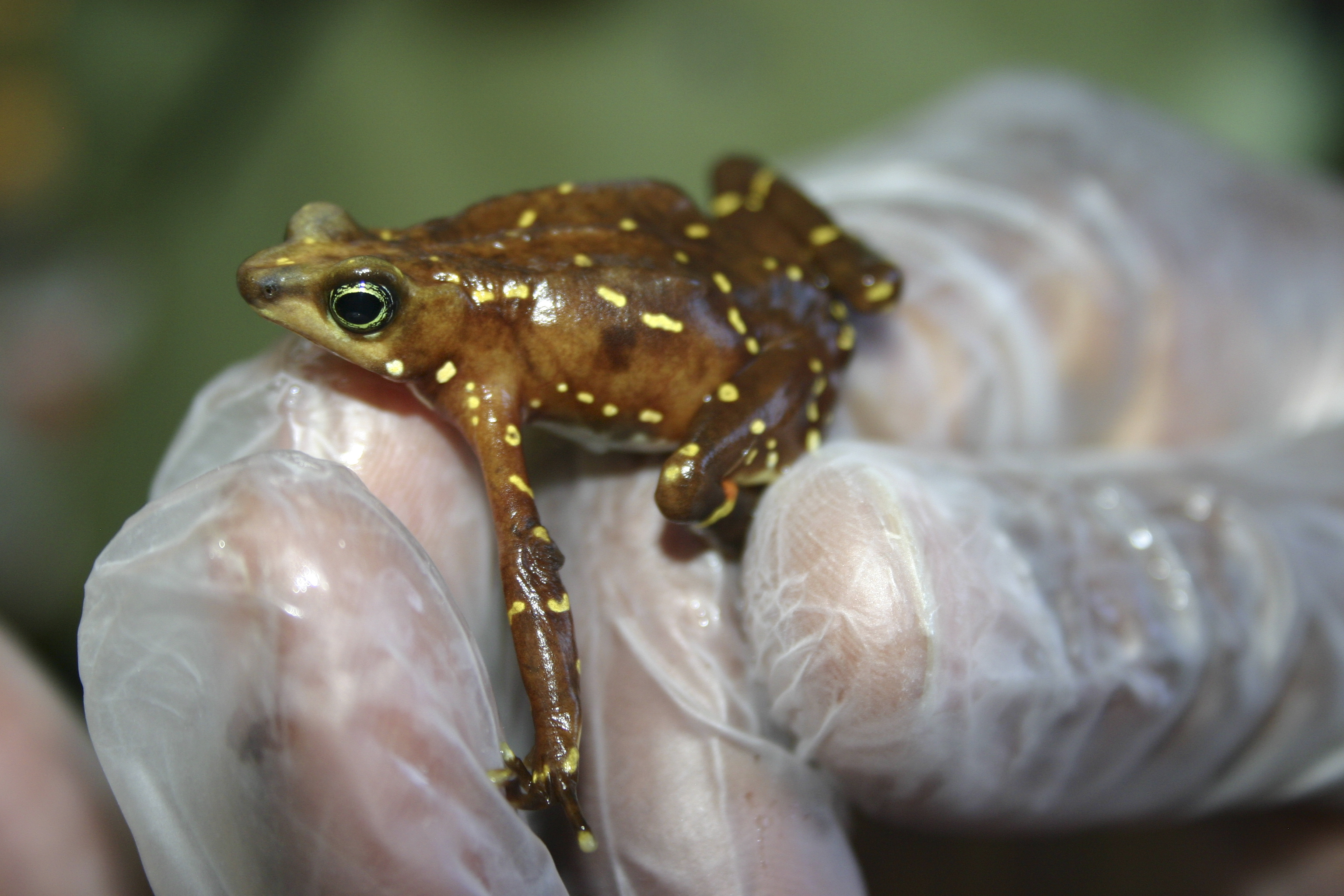 Atelopus glyphus